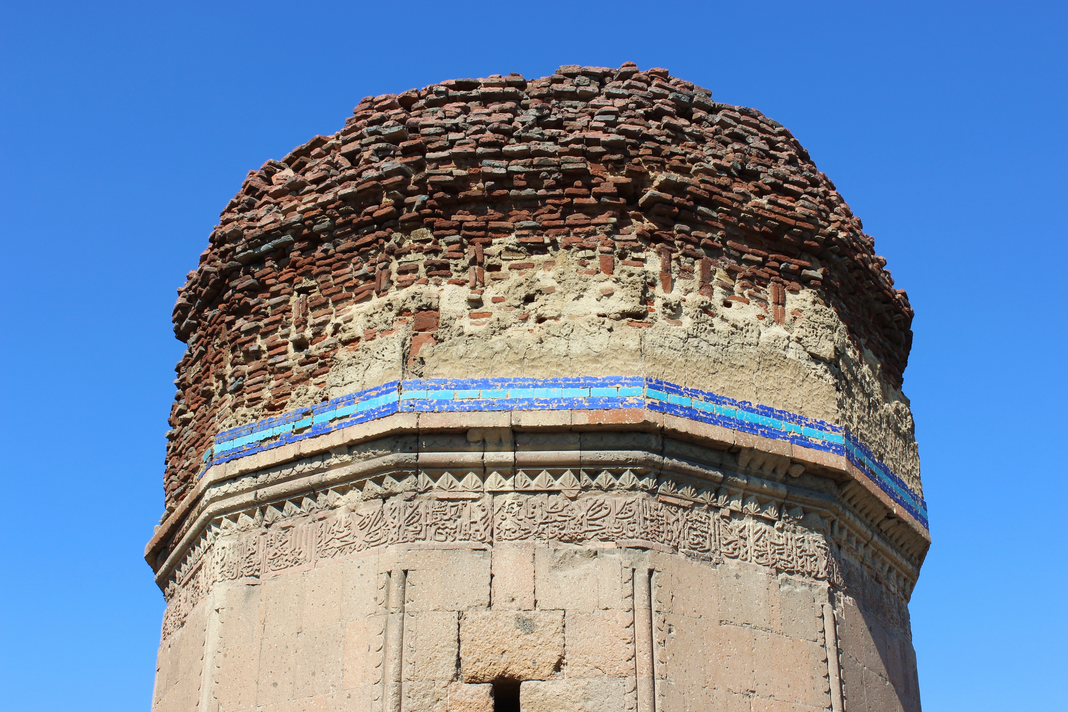 Dome of the Mausoleum of Turkmen Emirs or Argavand Funerary Tower with inscription, a Qara Qoyunlu mausoleum built in 1413 to commemorate Emir Pir Hussein. Argavand, Ararat Province, near Yerevan, Armenia.